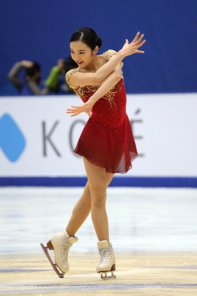 Photos – Cup of China 2017 – Ladies (Marin HONDA JPN – 5th Place)